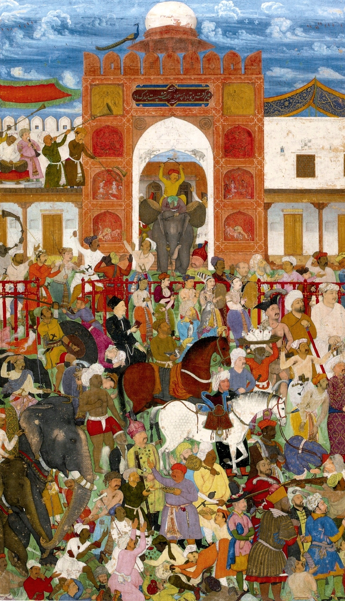 Abu'l Hasan. Celebrations at the accession of Jahangir. Jahangirnama. St. Petersburg Album. ca. 1615-18, Institute of Oriental Studies, St. Petersburg.